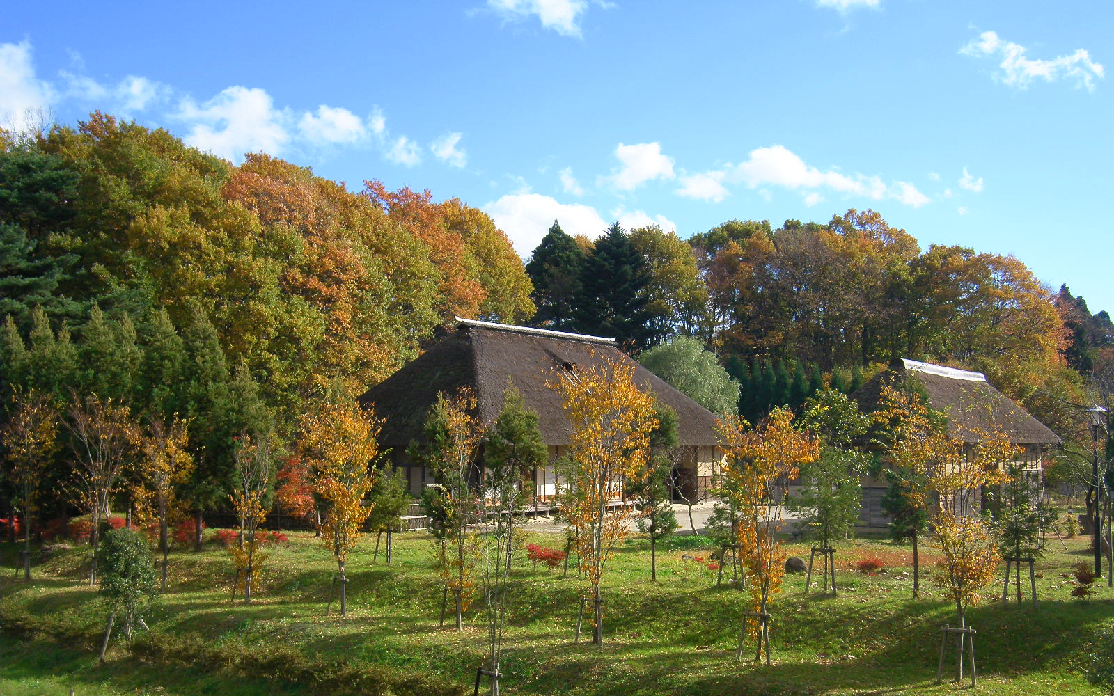 Konno's house. An traditional farmer's house under preservation in the Tohoku History Meseum, Tagajō, Miyagi prefecture, Japan. Photo taken from Kokufu Tagajō Station of Tōhoku Main Line